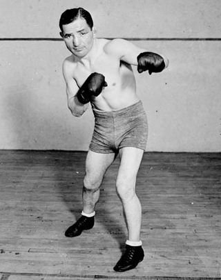 "Full-length portrait of pugilist Sammy Kaplan standing in a boxing stance in front of a light-colored backdrop in a gymnasium in Chicago, Illinois." NOTE: Subject mistakenly labeled as "Sammy" instead of Louis Kaplan